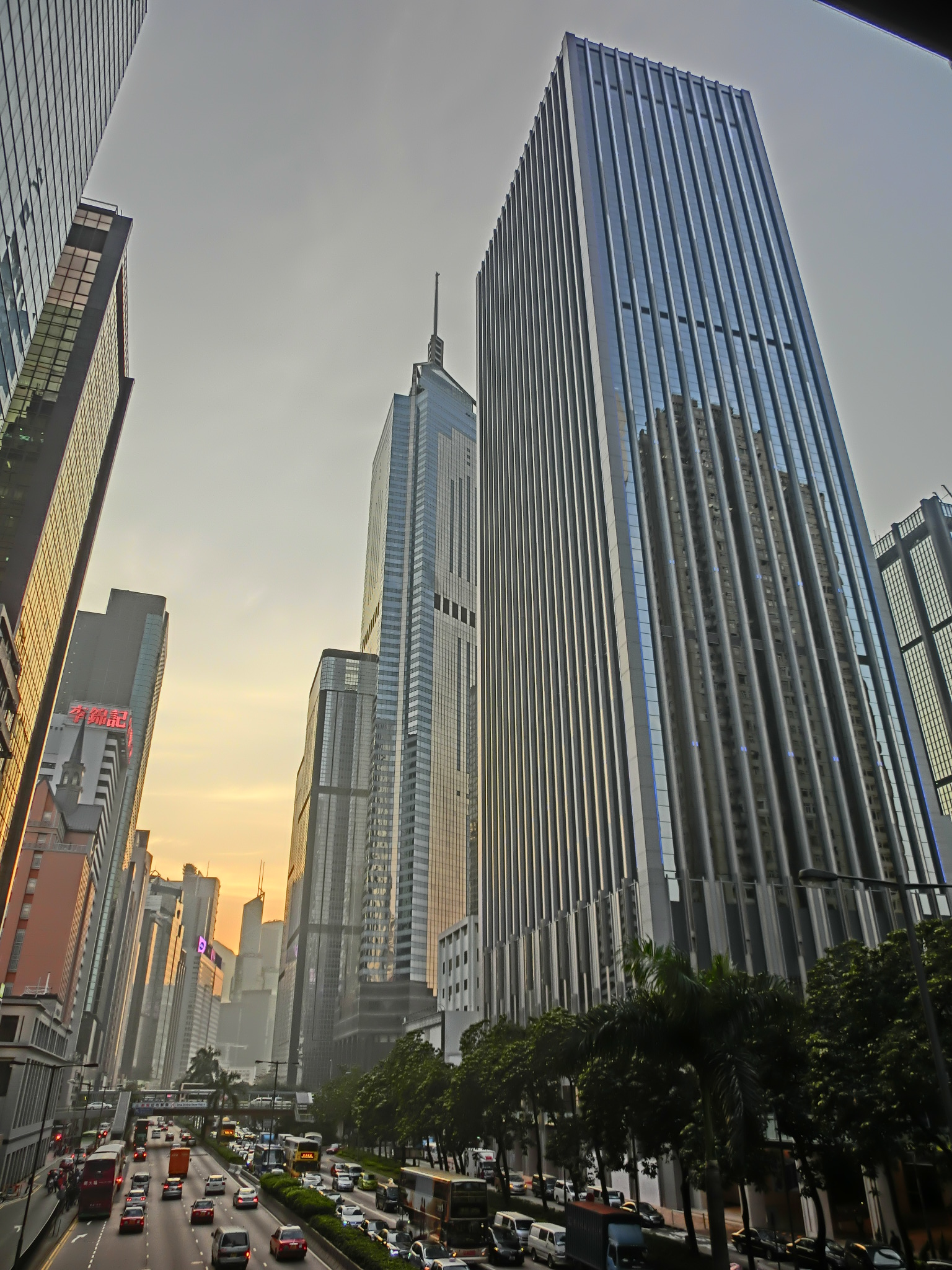 灣仔 告士打道, Gloucester Road, Wan Chai, Hong Kong